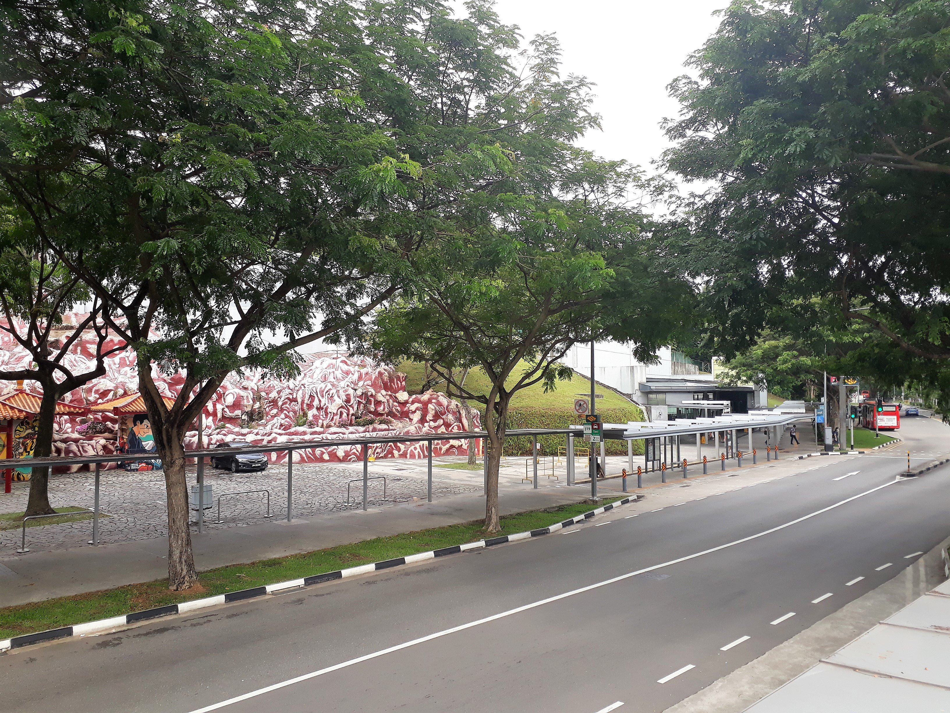 Exit A of the station with Haw Par Villa